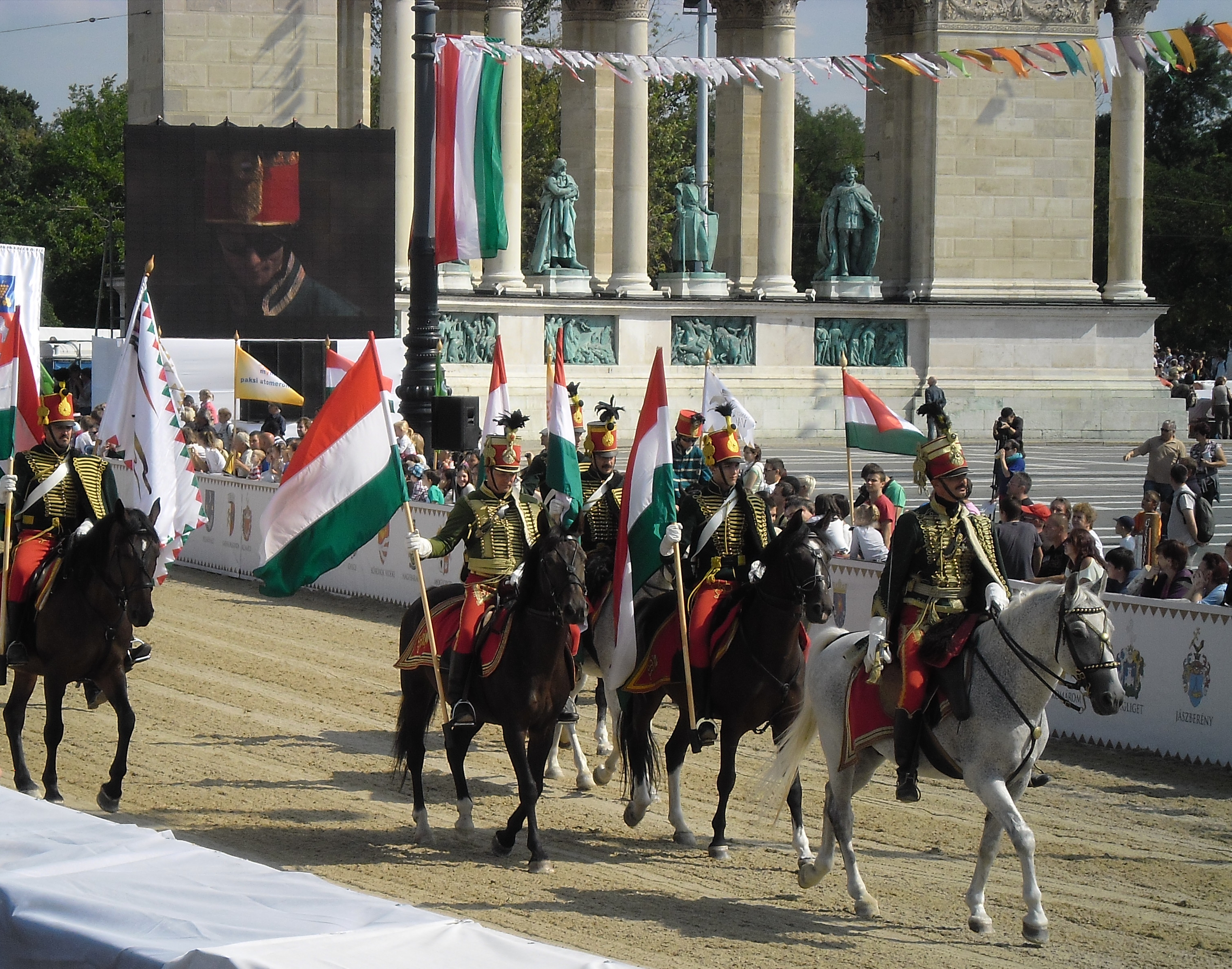 National Gallop 2012